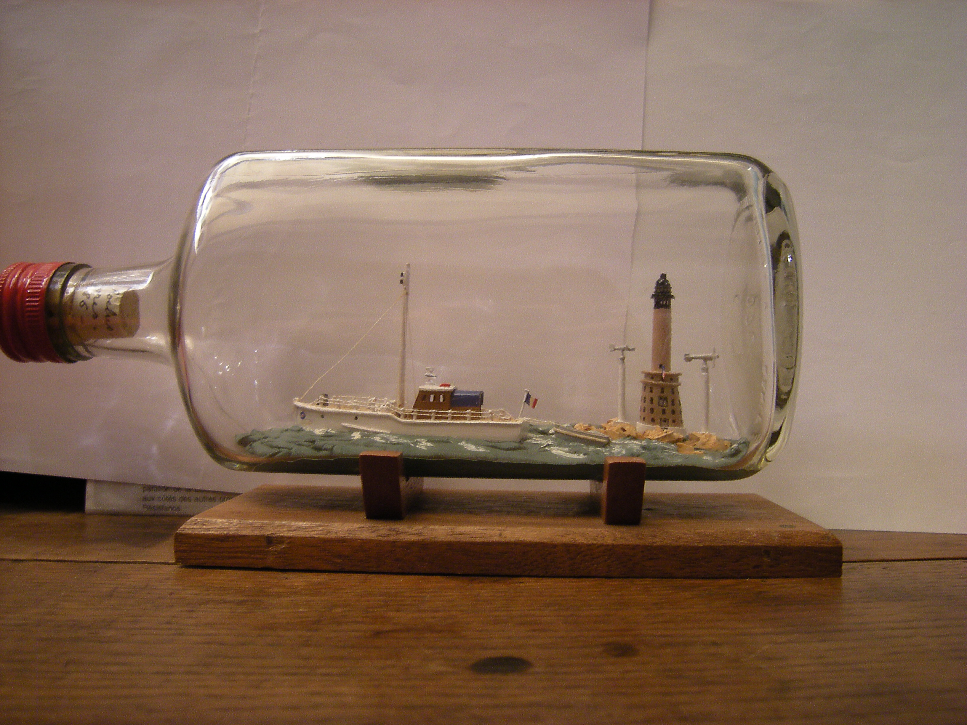 La Horaine and Roches-Douvres lighthouse in a bottle. By François Jouas-Poutrel, lighthouse keeper of Roches-Douvres during 21 years.